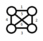 object connections